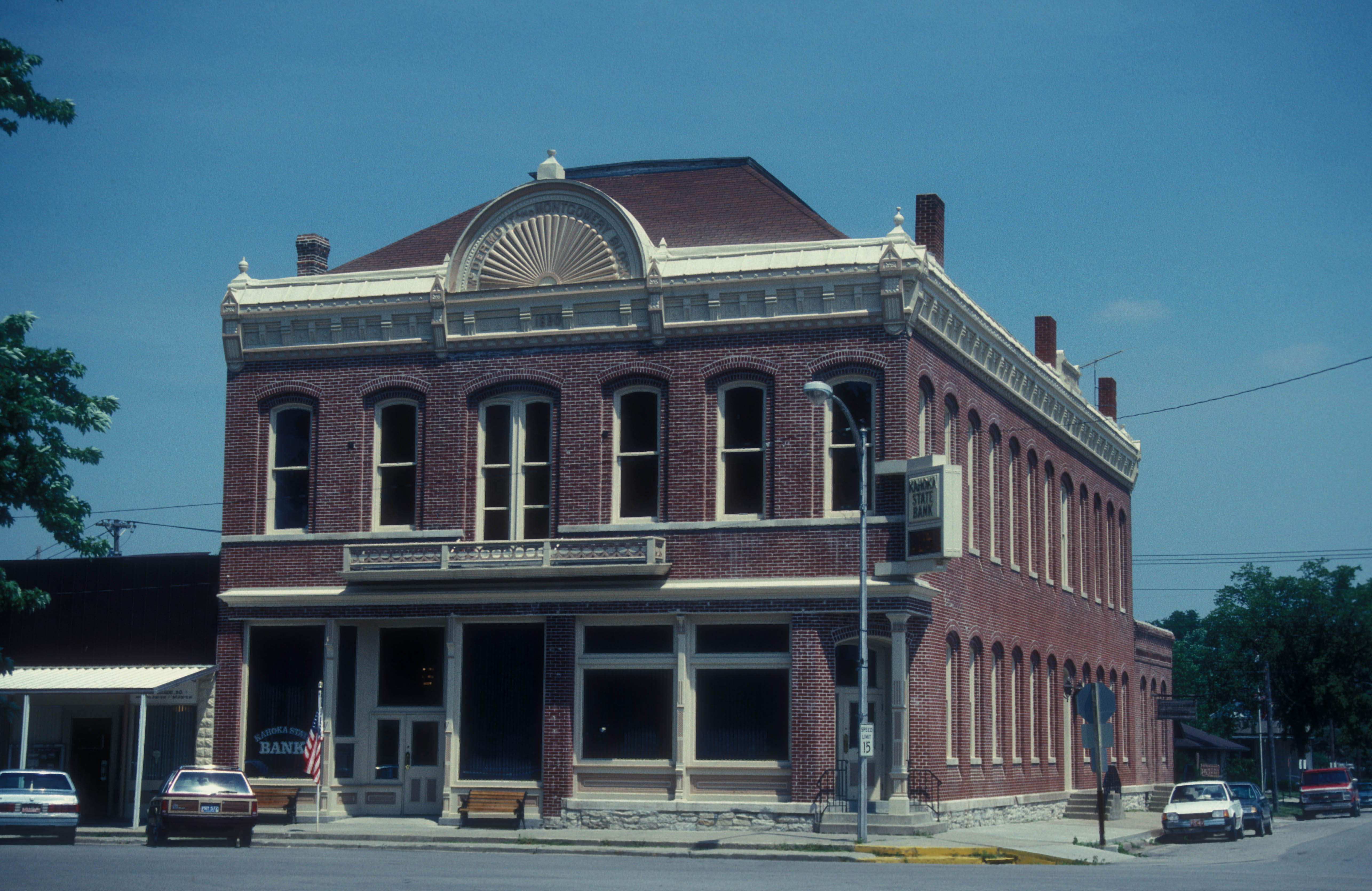 MONTGOMERY OPERA HOUSE BUILT IN 1890 AND LATER BECAME A BANK WHICH IT STILL IS.